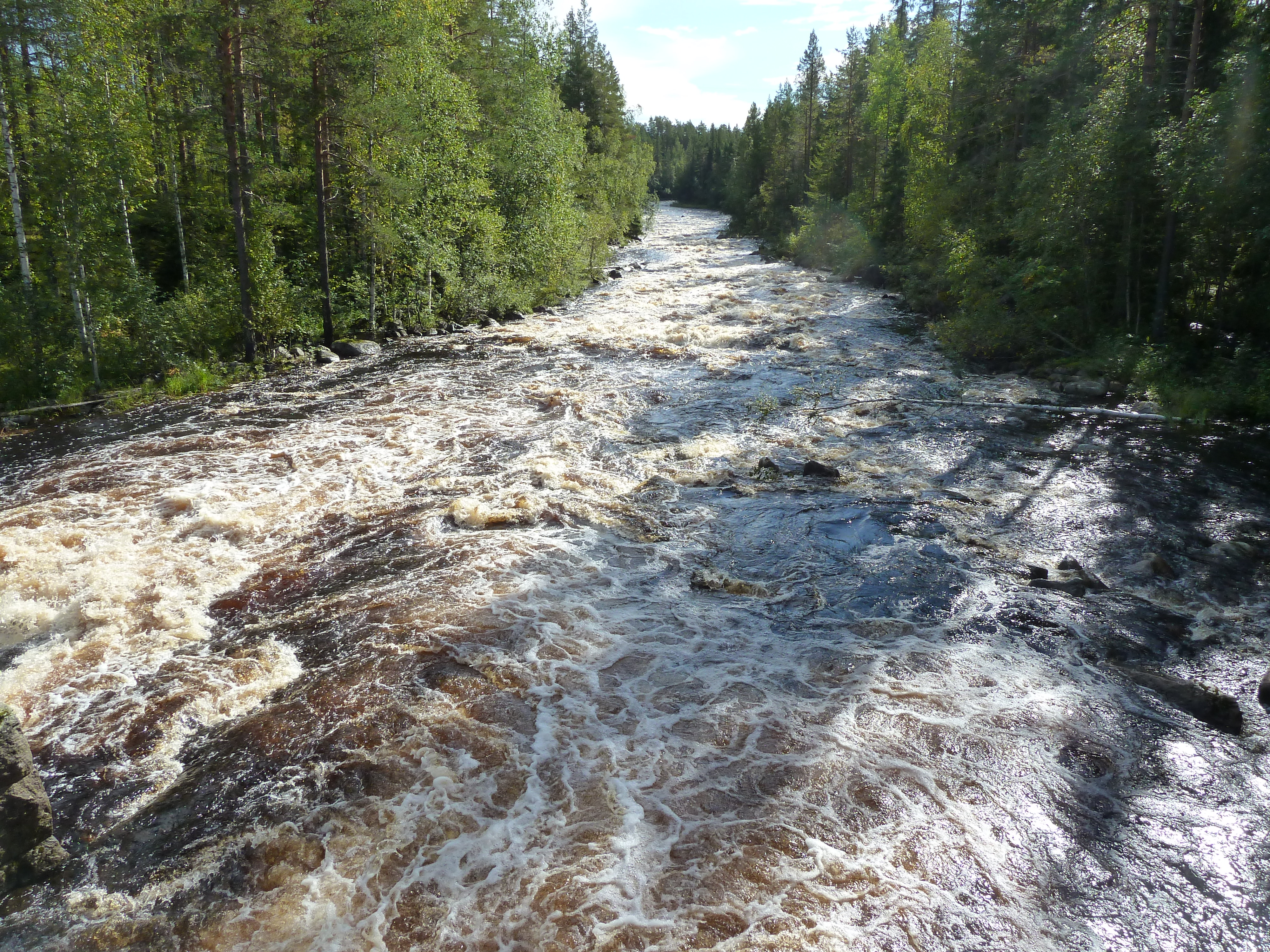 Norra Anundsjöån, Ångermanland, Sweden